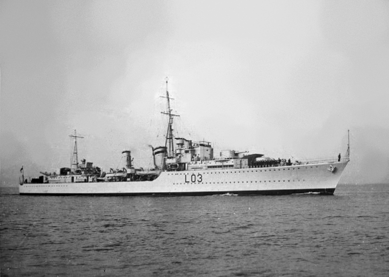 The Tribal class destroyer HMS Cossack (F03) underway on completion.